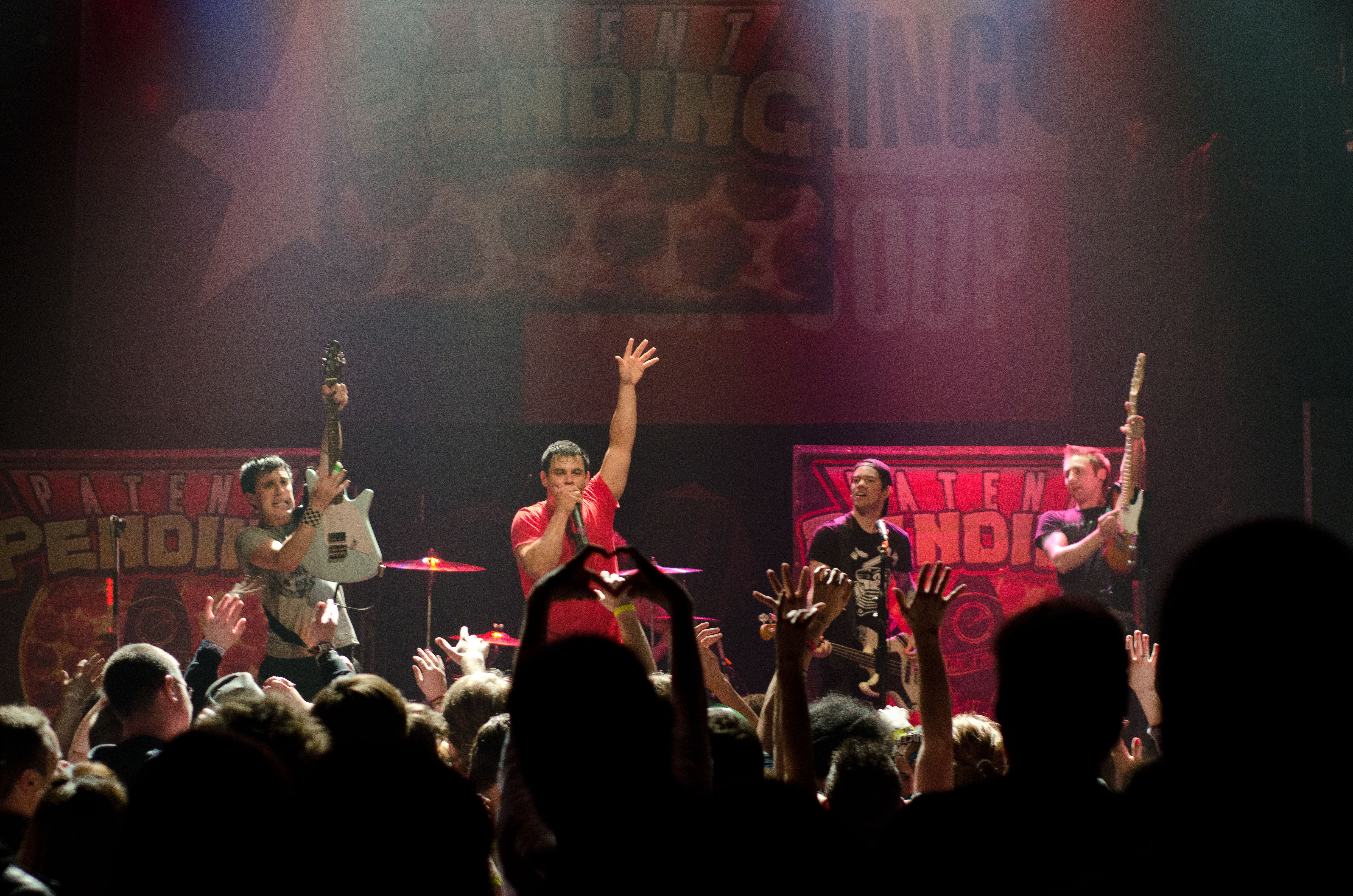 a picture of the band Patent Pending